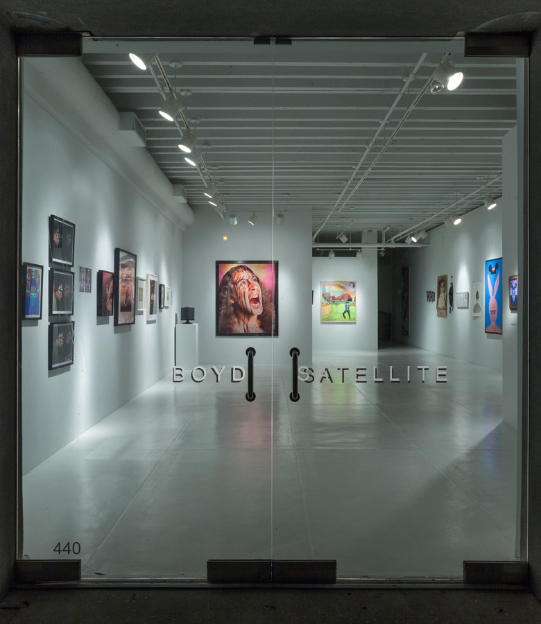 Exterior shot of the inaugural exhibition at b o y d / s a t e l l i t e 440 Julia Street New Orleans LA 70130